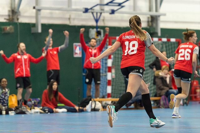 London GD Handball Club